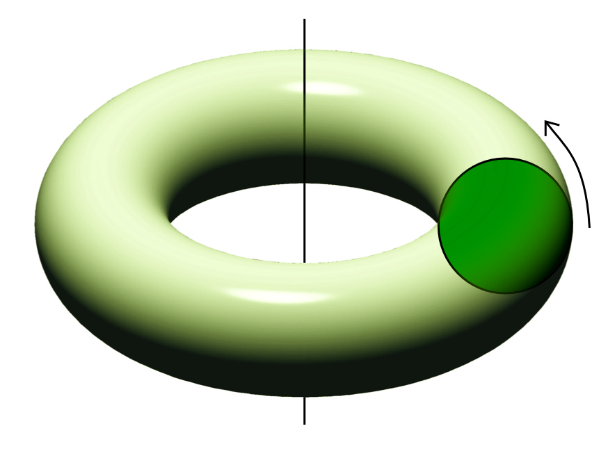 Illustration of torus with axis of revolution, disc and arrow added